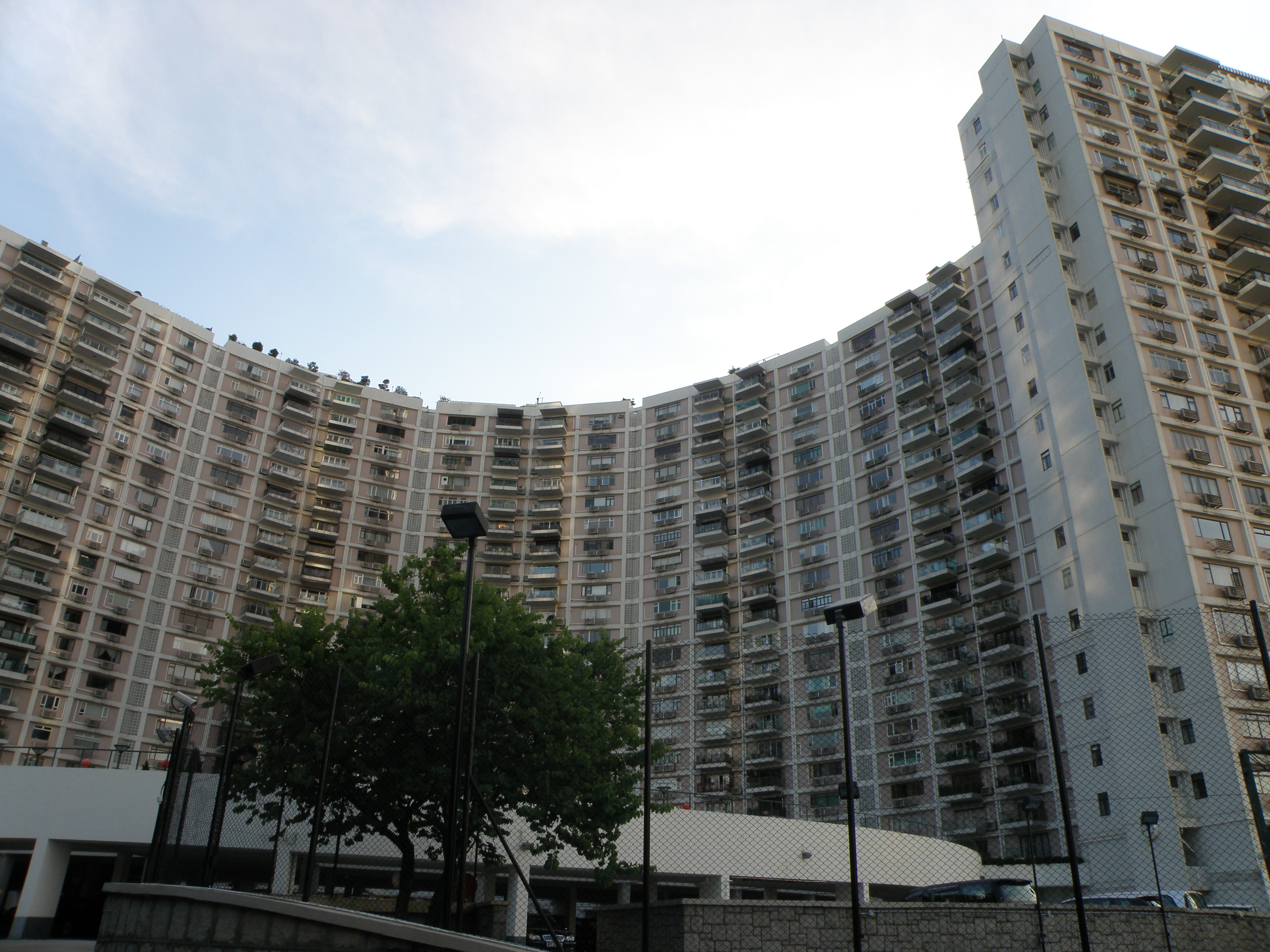 Villa Monte Rosa in Stubbs Road, Hong Kong.